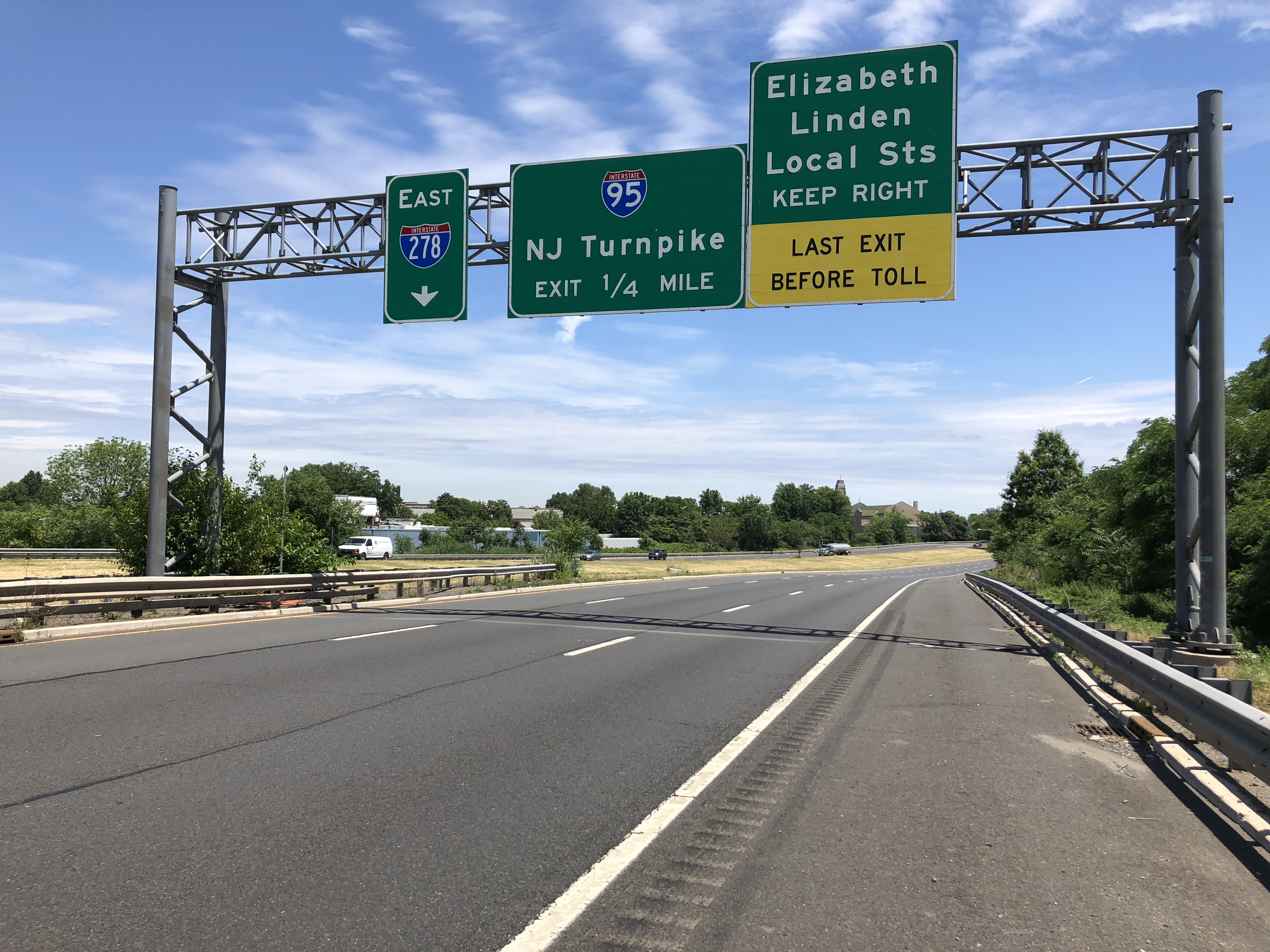 View east along Interstate 278 (Union Freeway) between U.S. Routes 1&9 (Edgar Road) and the exit for Elizabeth, Linden and Local Streets in Linden, Union County, New Jersey